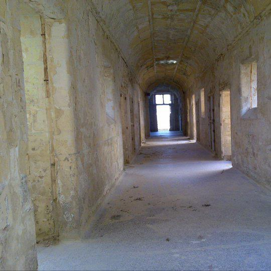 Bighi delipidated state circa 2010 Malta